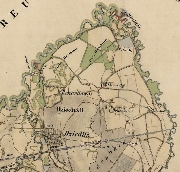 Dziedzice and norhtern parts of Czechowice around 1840